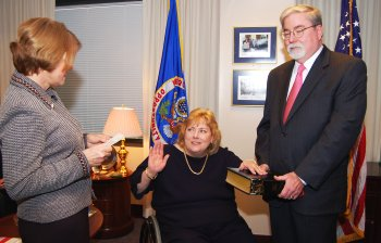 Commissioner Christine Griffin is sworn in by Chair Cari M. Dominguez as her husband looks on.